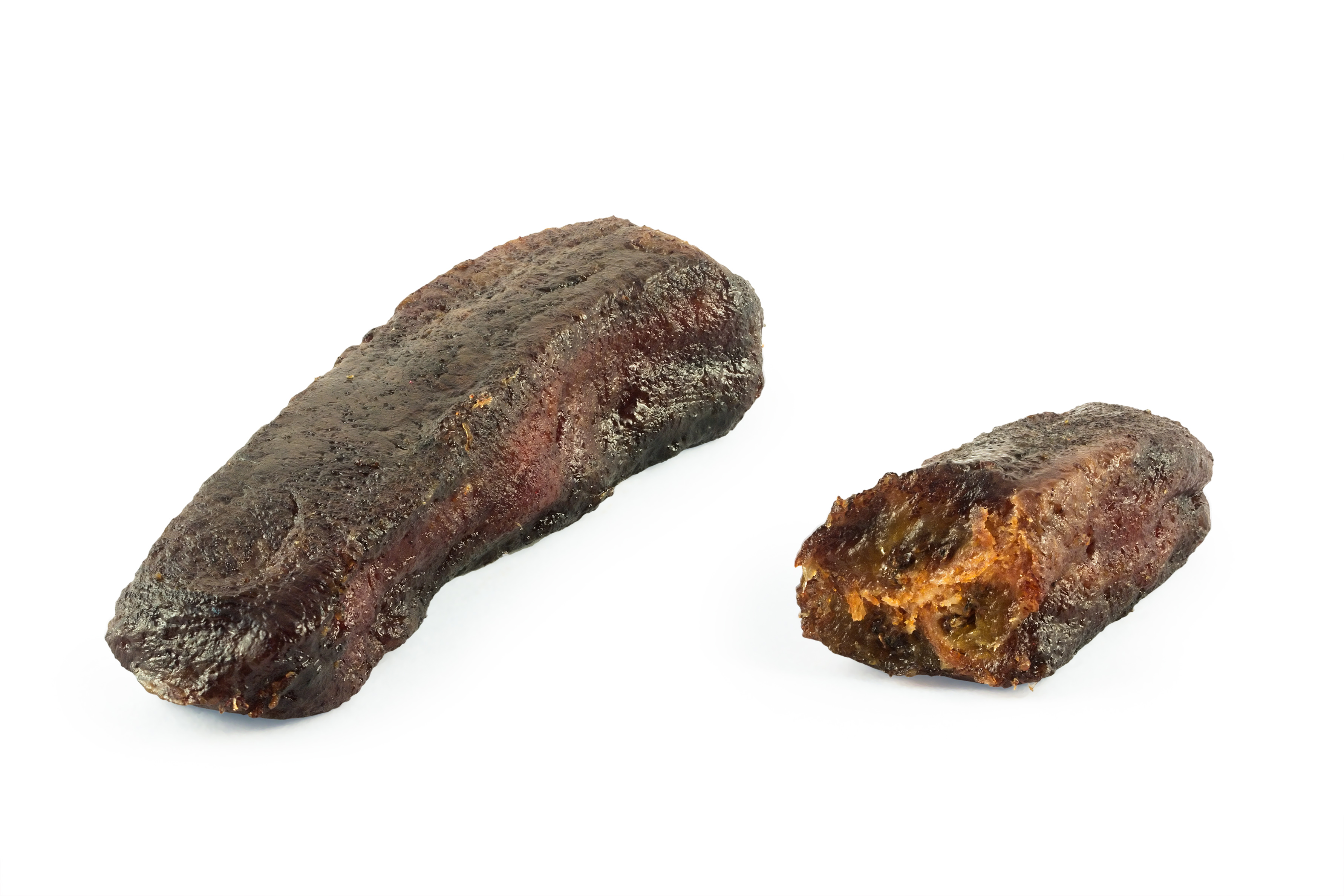 Wet variety of sale pisang (whole [left] and half), an Indonesian snack which is made with preserved and sweetened bananas